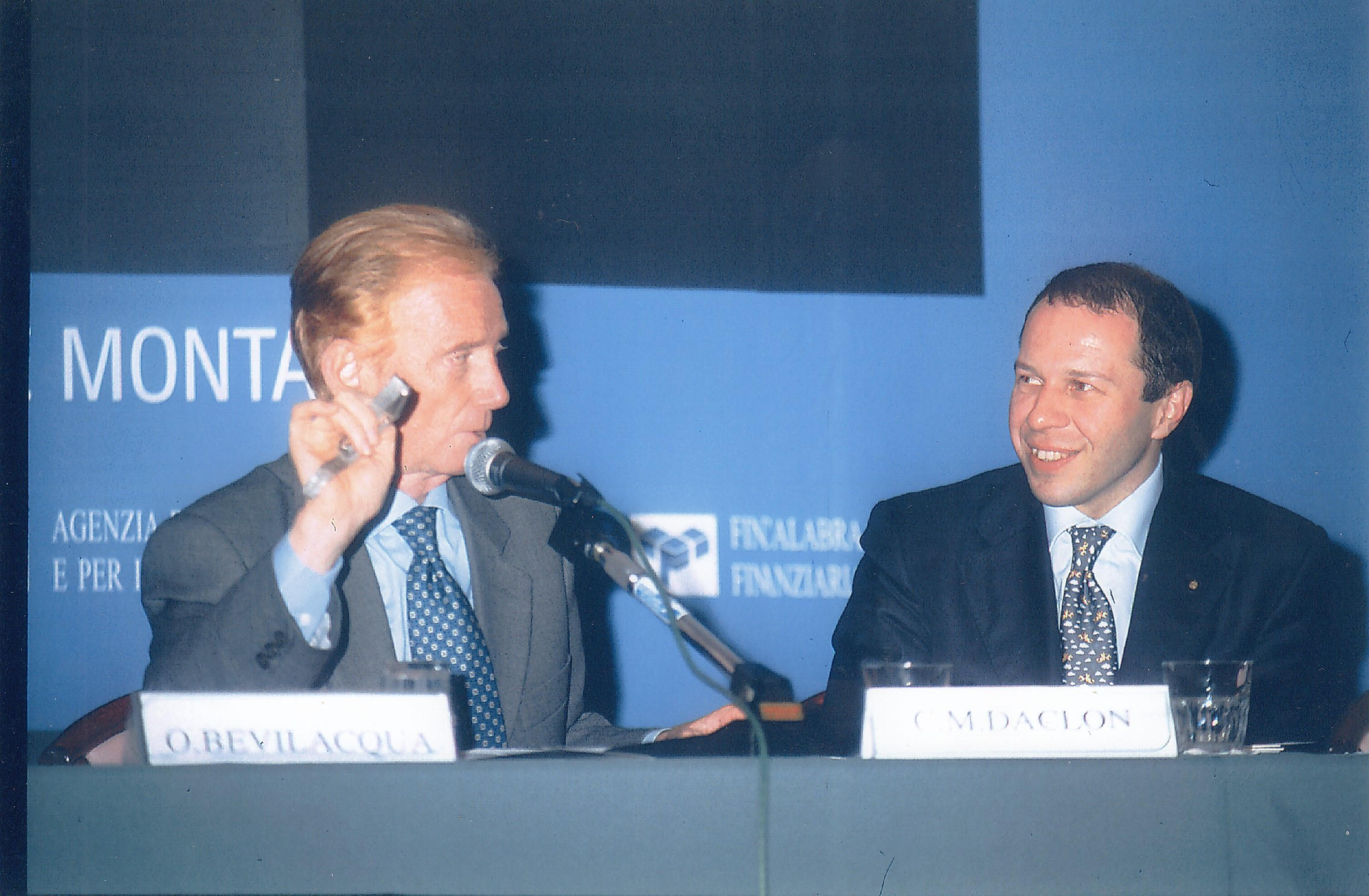 Osvaldo Bevilacqua interviews Corrado Maria Daclon, United Nations, 2002